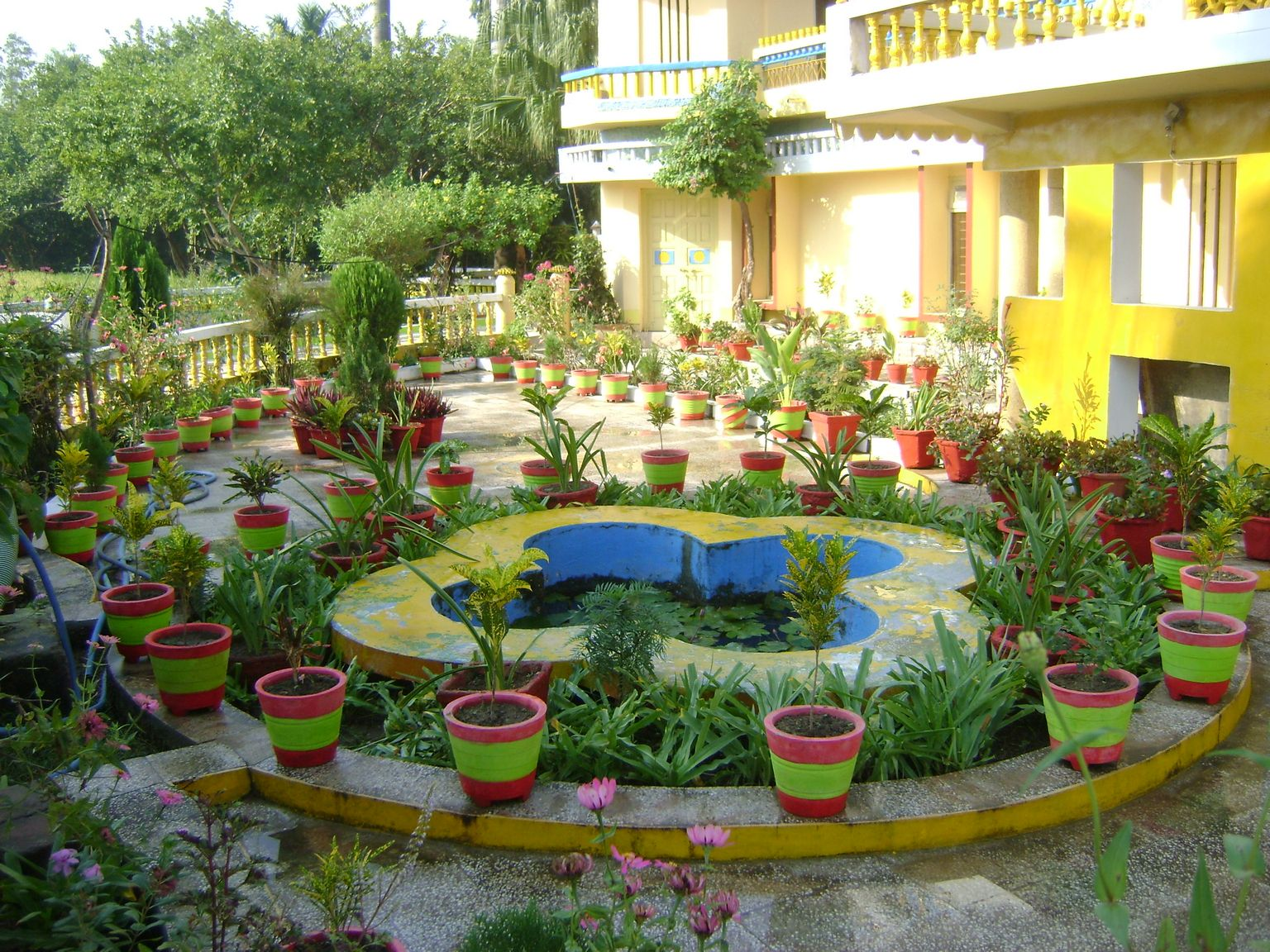 Maa Mandir